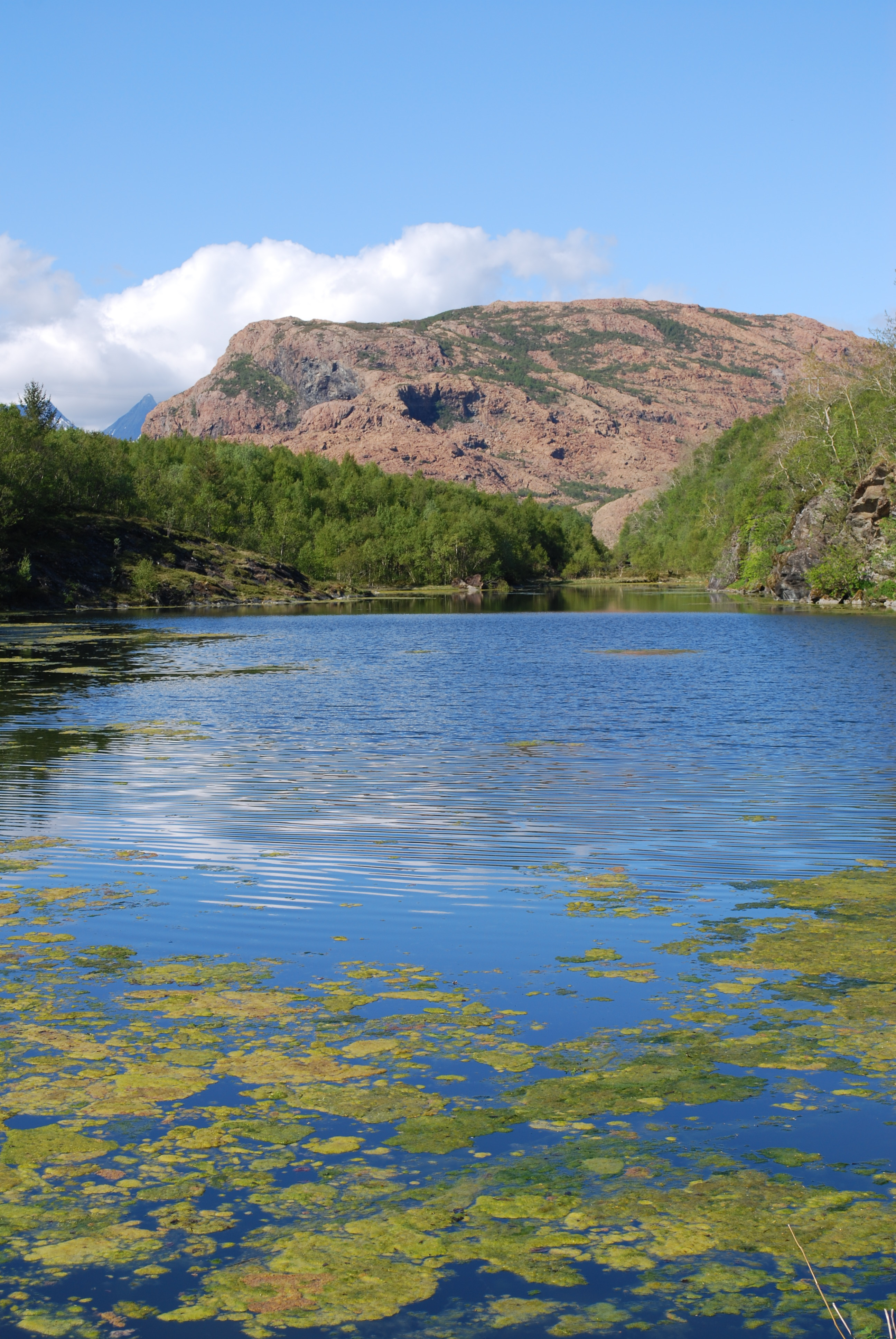 Pic from Tro and Flatøy in North of Norway.